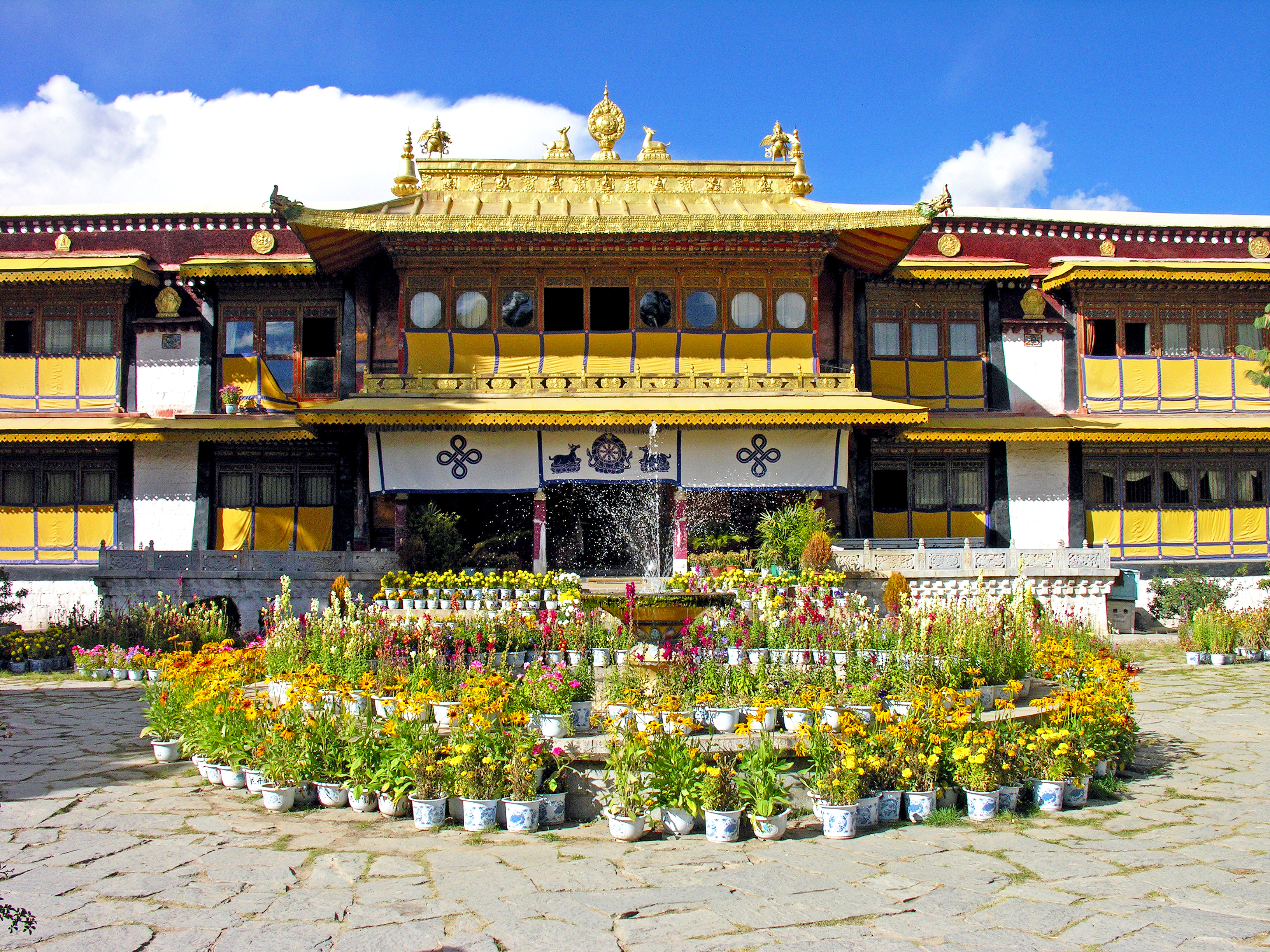 Main living area of the palace. While in Tibet I did not see flower gardens but did see many potted plants as seen here. Lhasa, Tibet